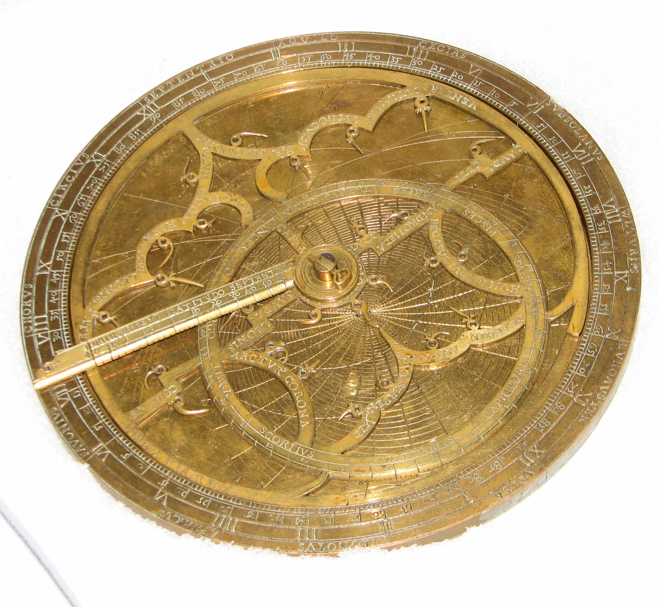 One of four extant brass astrolabes manufactured by the workshop of Georg Hartmann in Nuremberg in 1537. This one part of the Scientific Instruments Collection of Yale University's Peabody Museum of Natural History.